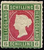 6 Schilling Heligoland stamp, Michel No. 4.